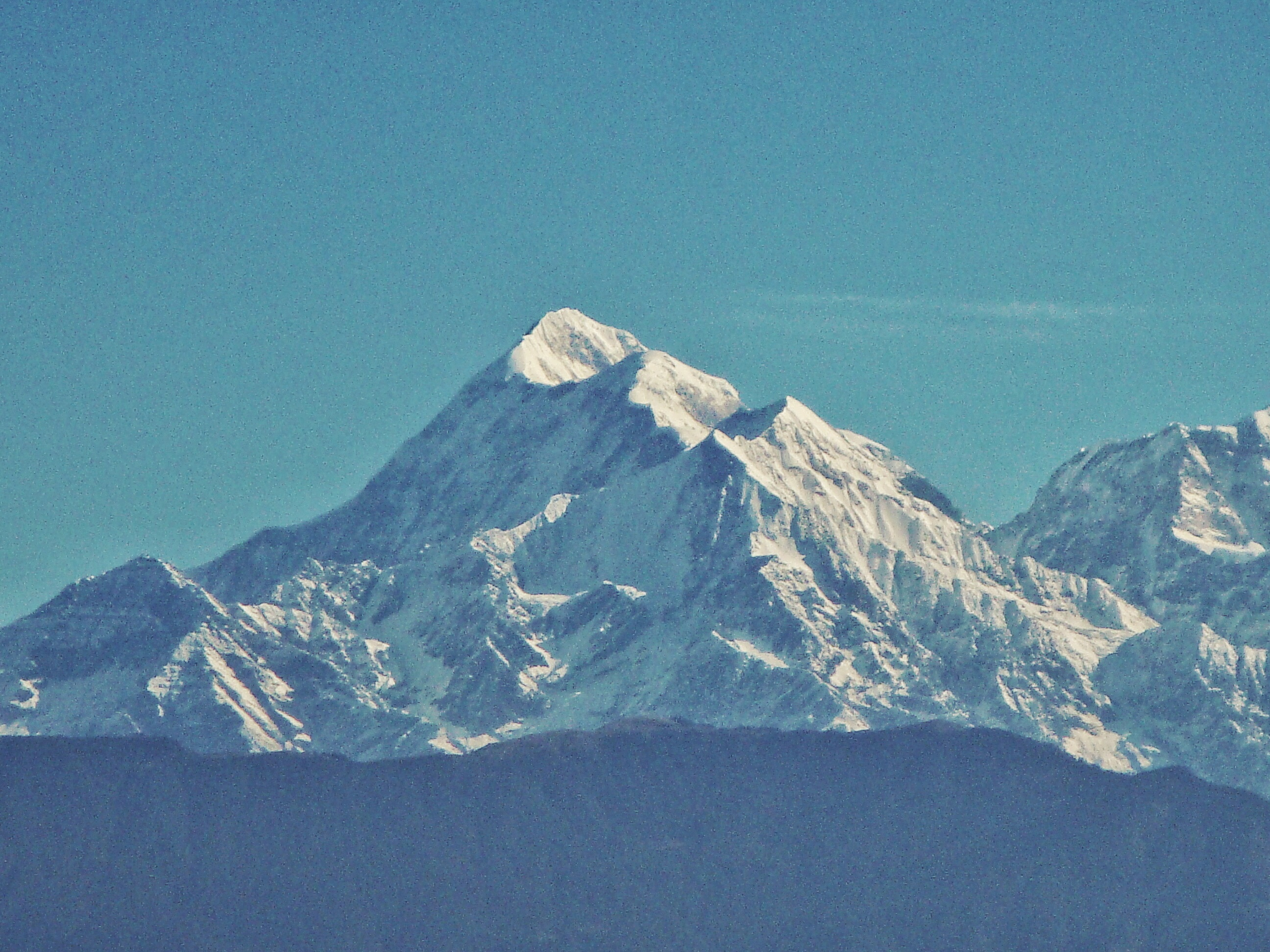 Trisul Peak from Anasakti Ashram, Kausani, Bageshwar District, Uttarahand